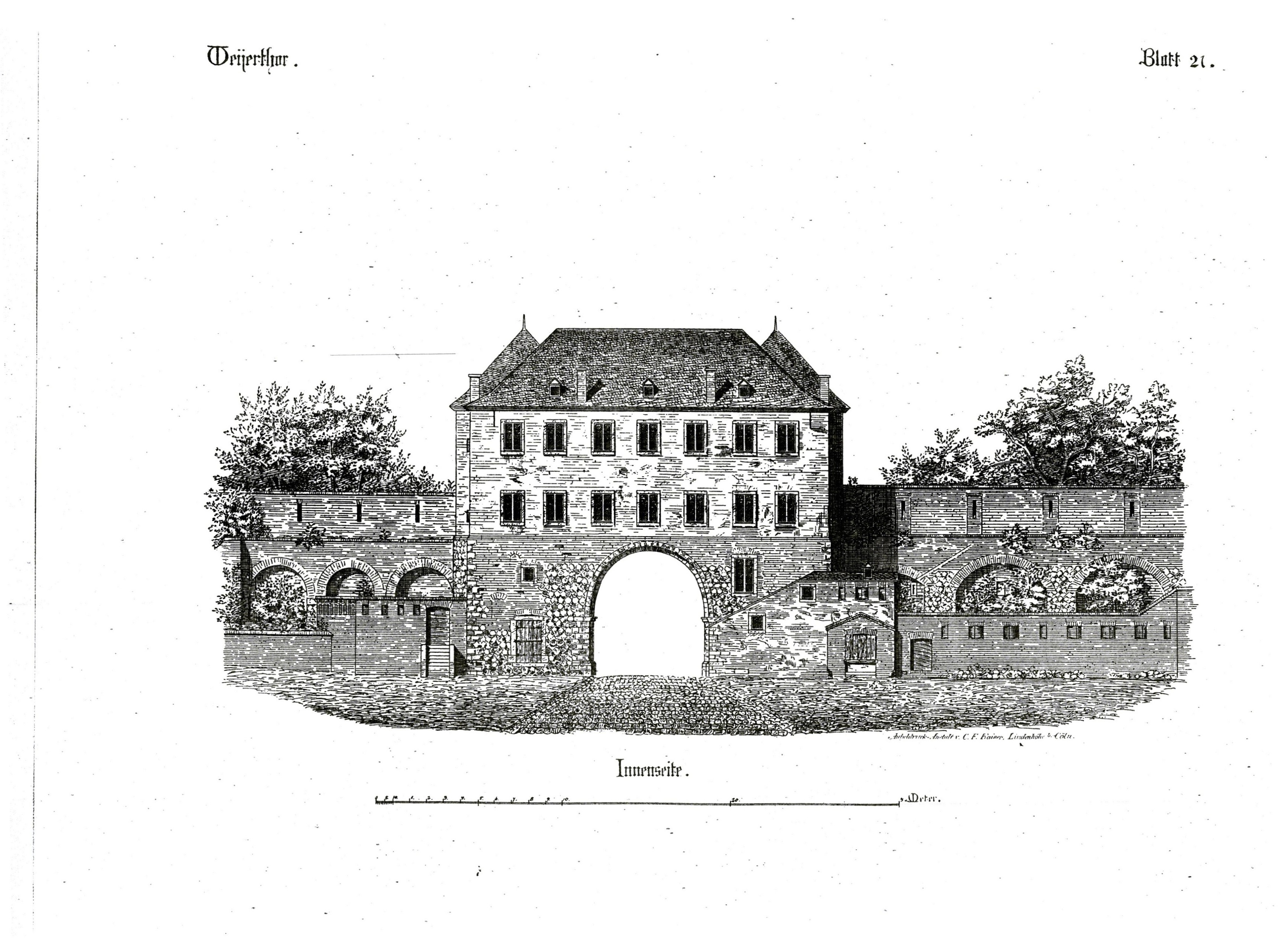 This is a scan of the historical document